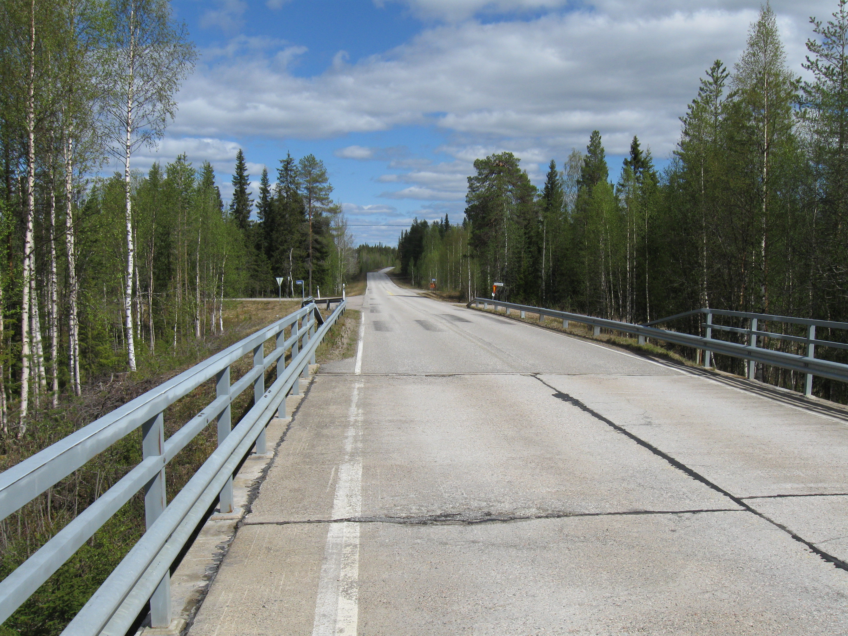 Connecting road 8980 in Suomussalmi, Finland, seen towards Peranka and the brigde of the Ämmänsaari railroad.